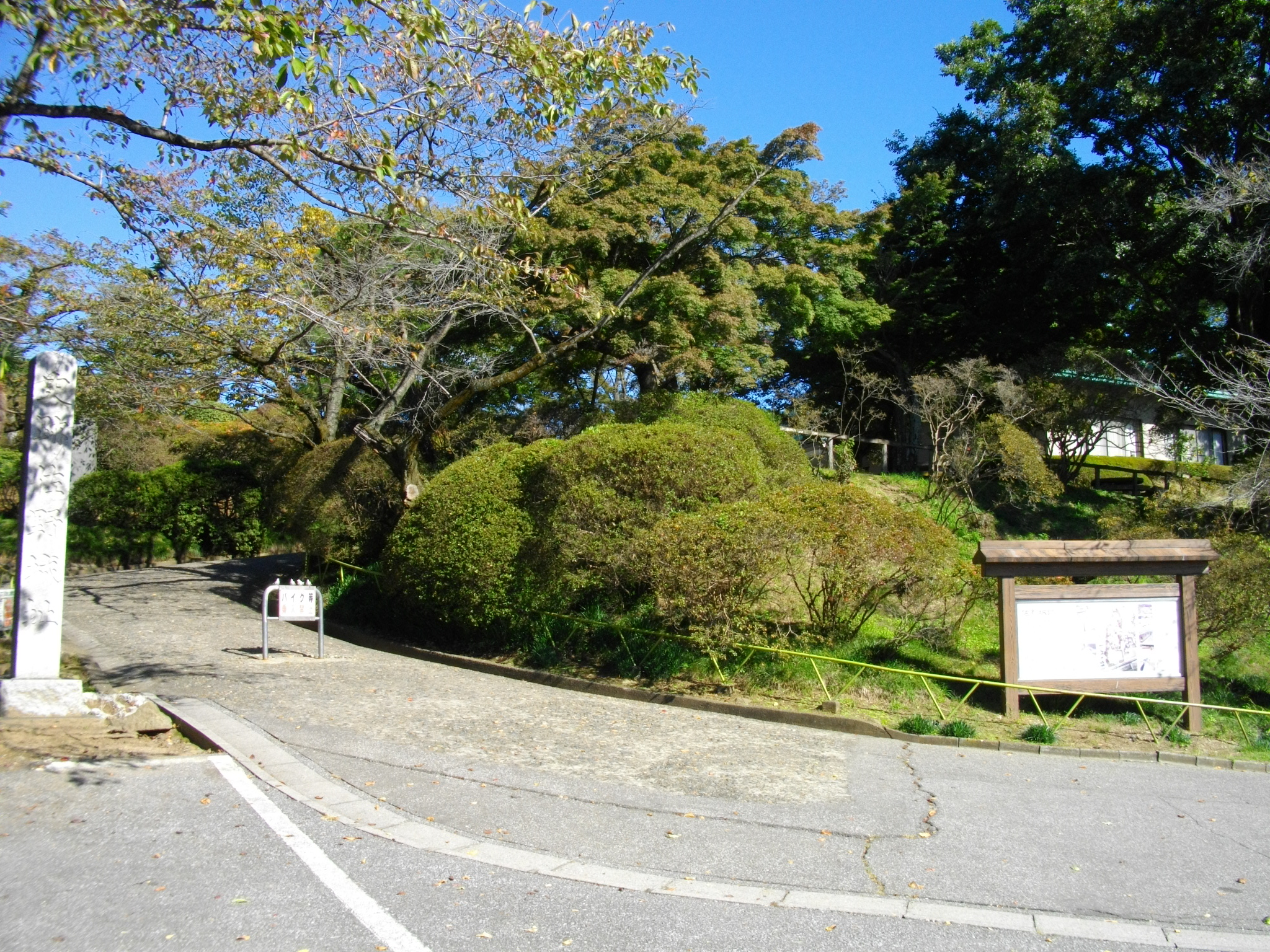 Shiroyama Park